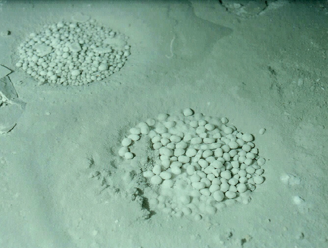 in a small pool of an old mine tunnel at Kitakyushu City, Fukuoka Pref., Japan